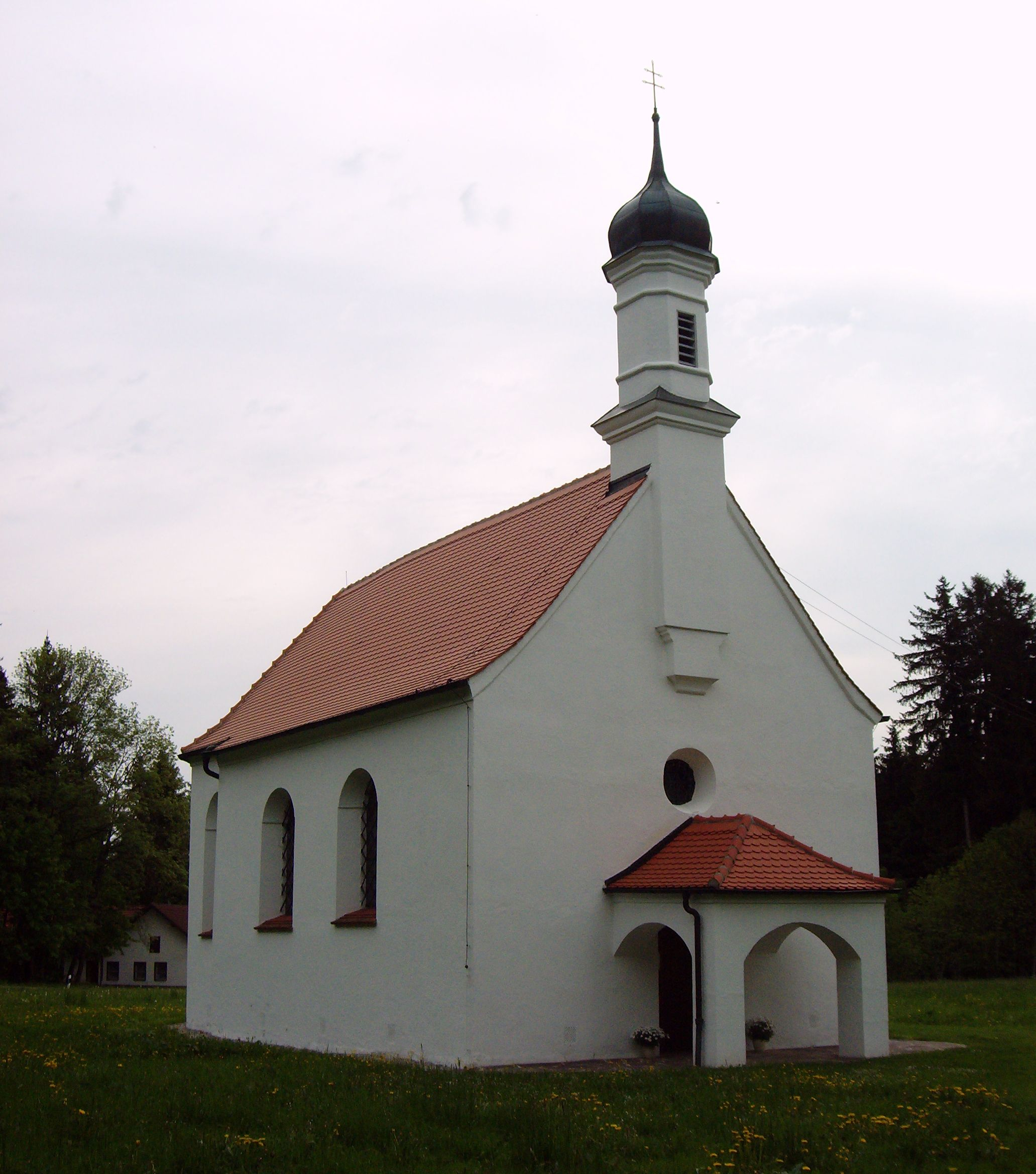 Stock (Fuchstal), St Vitus' Sanctuary from north-west.